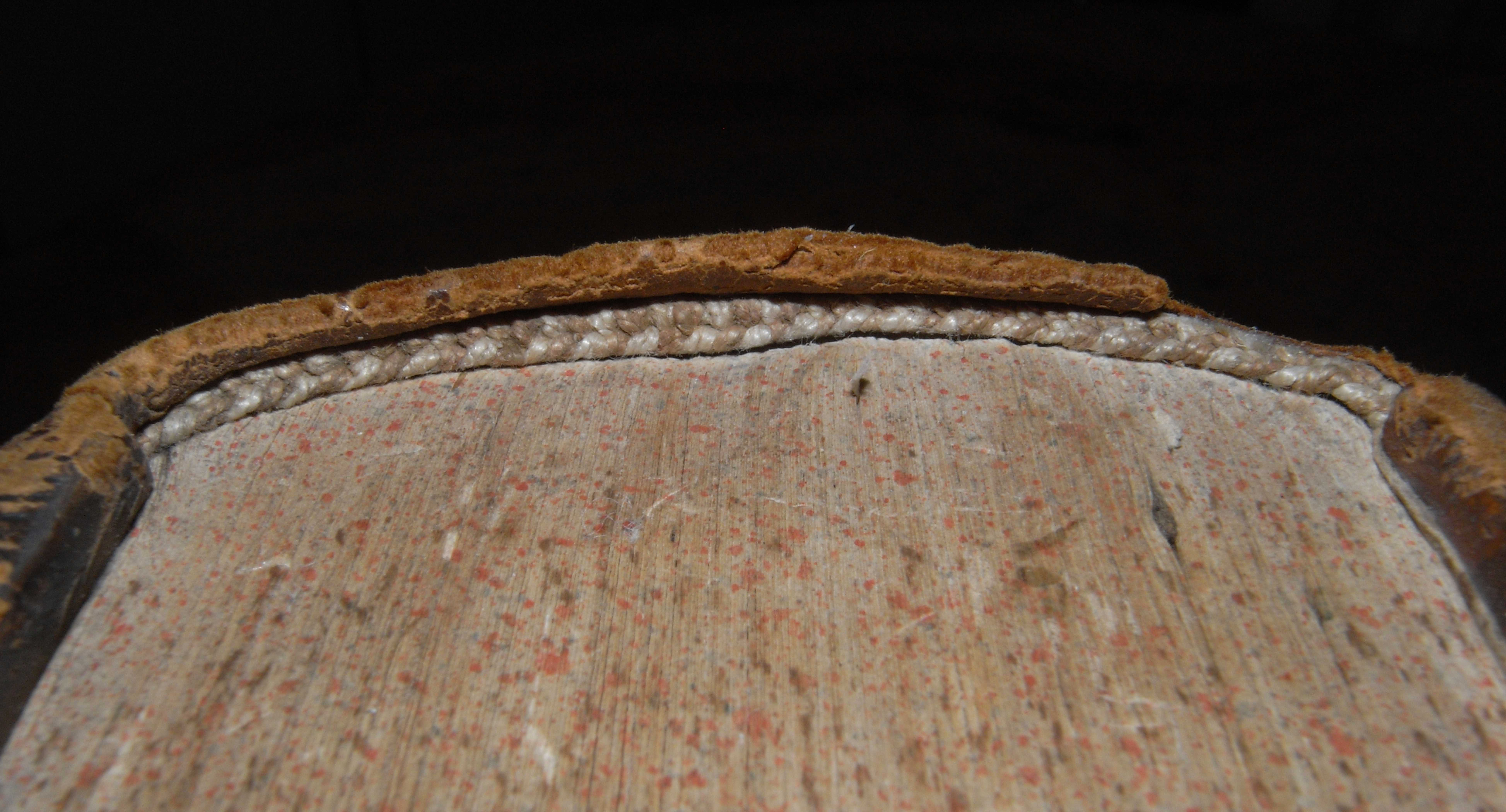 tailband on book, handmaded (1731)